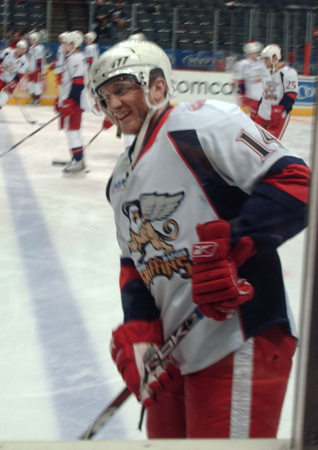 Photo I took of Carl Corazzini at a Grand Rapids Griffins game.